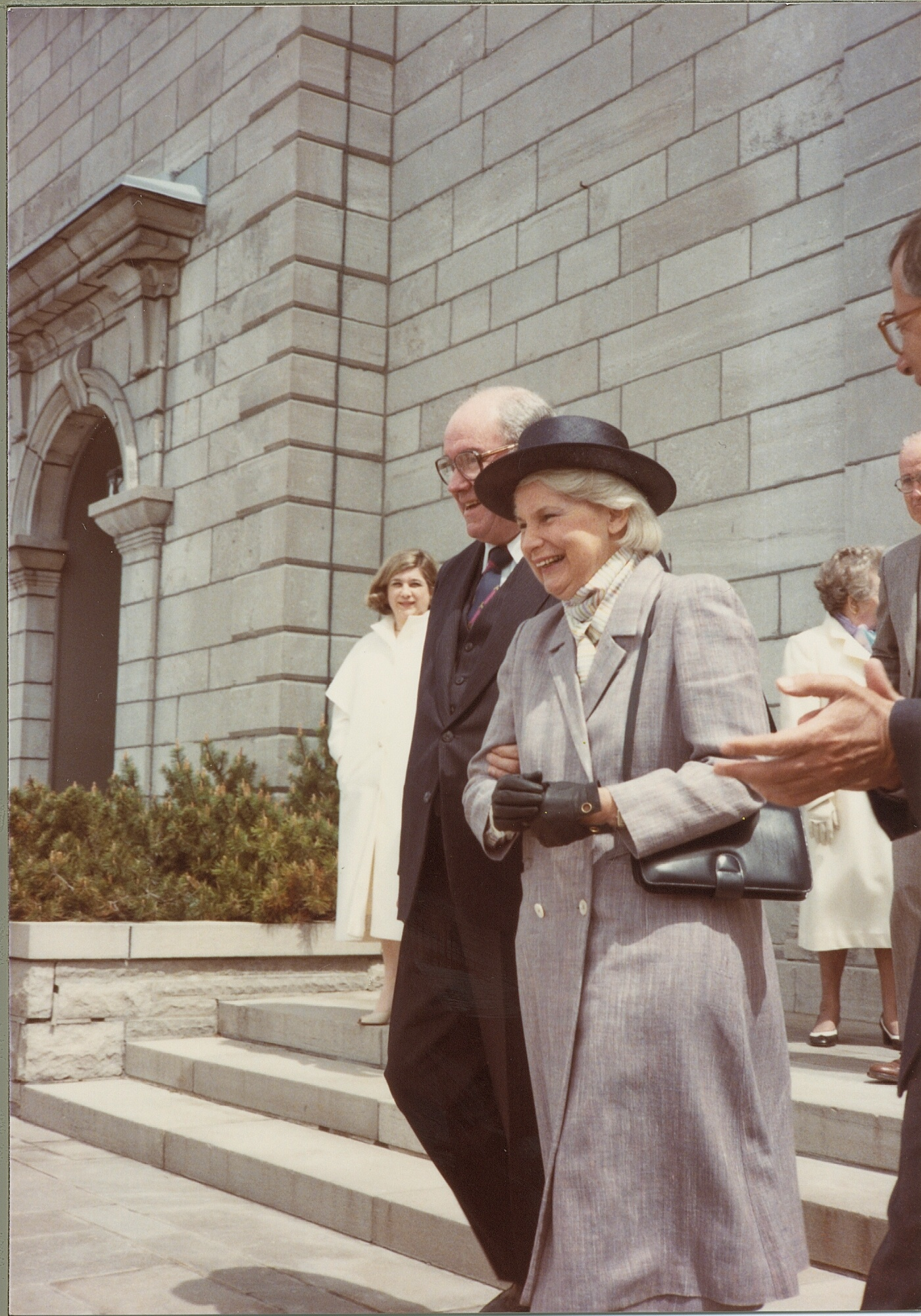 Jeanne Sauvé, Governor General of Canada, with her husband Maurice Sauvé, in Ottawa Canada